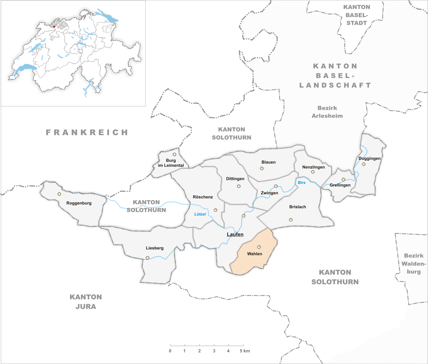 Municipality Wahlen